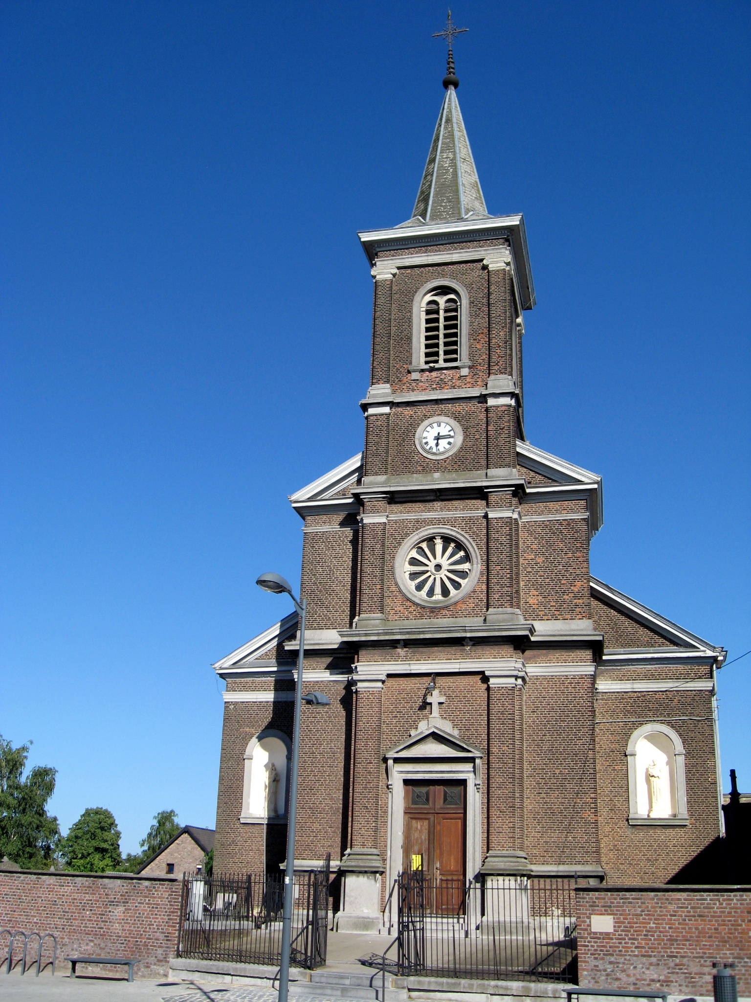 Church of Saint John the Baptiser in Hermée, Oupeye, Liège, Belgium